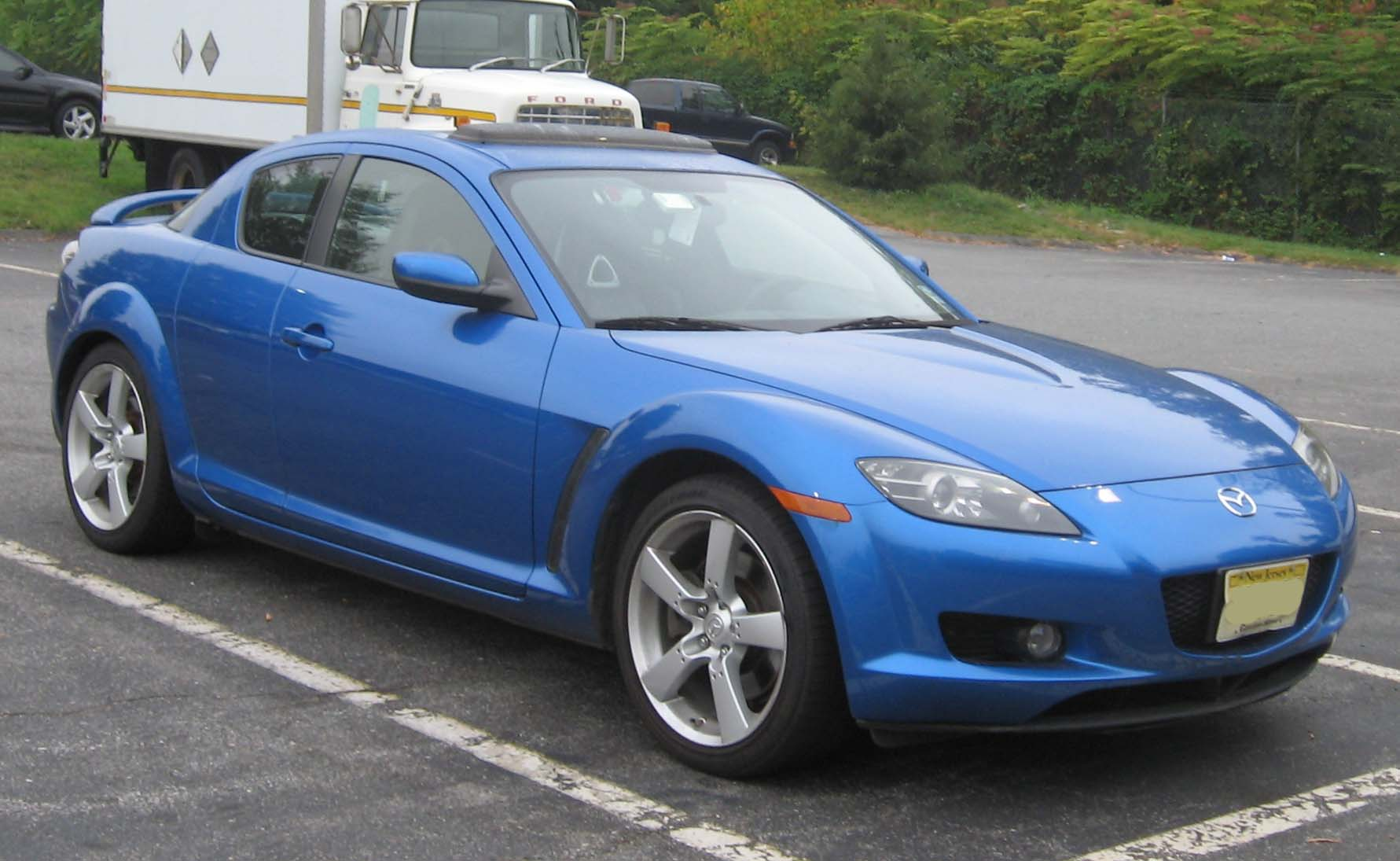 Mazda RX-8 photographed in College Park, Maryland, USA.